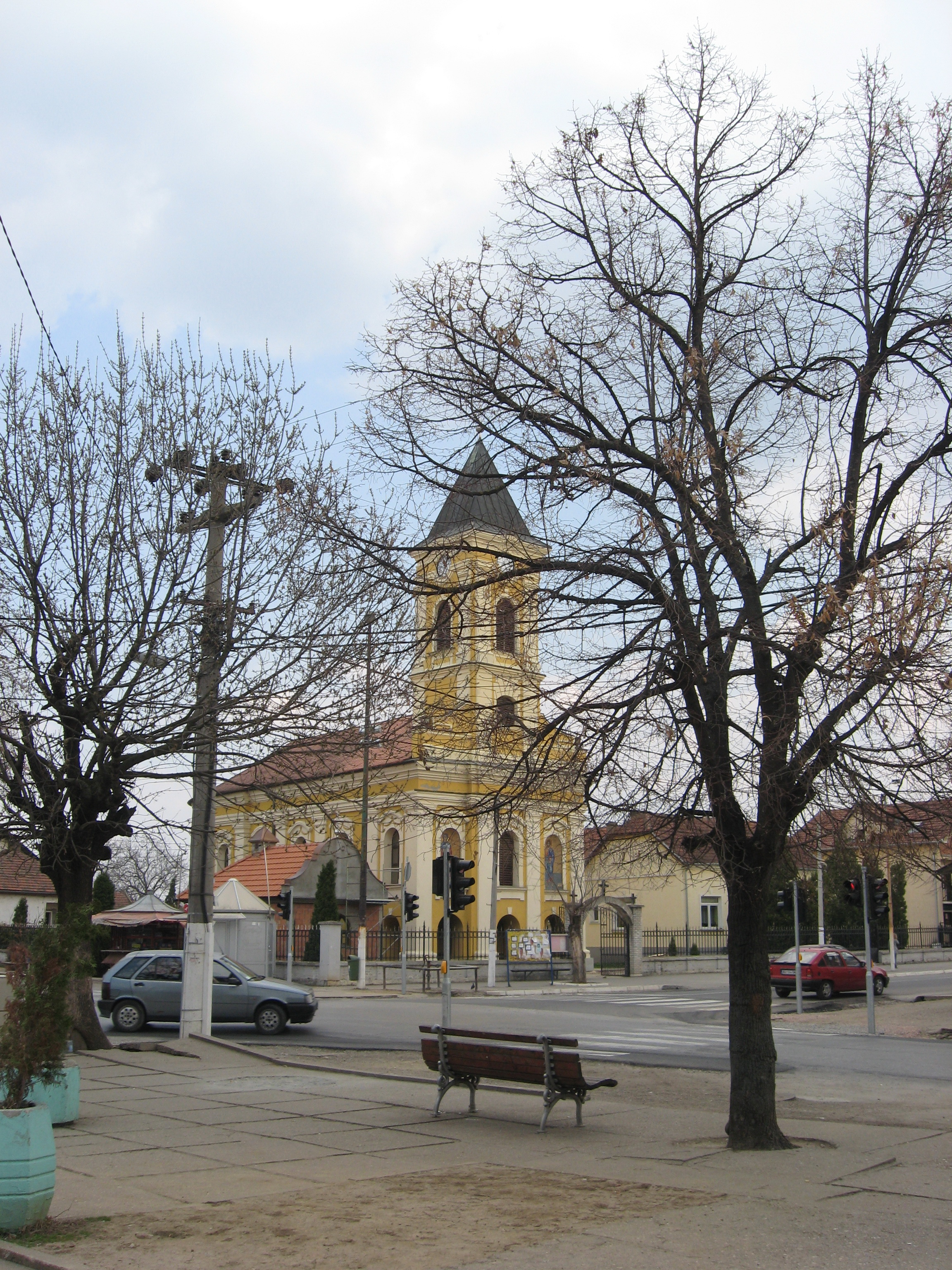 Orthodox Church of the Ascension of Christ